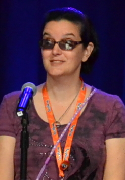 Charlotte Fullerton at BronyCon in 2015